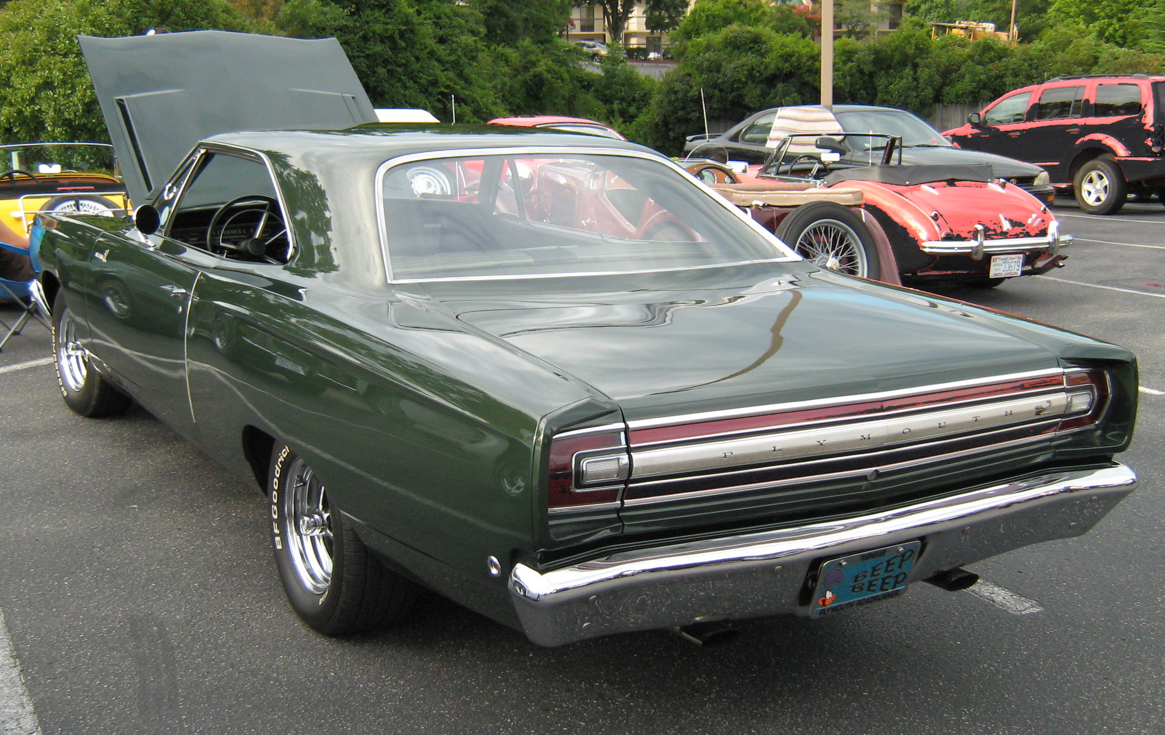 1968 Plymouth Road Runner two-door hardtop - rear view- green